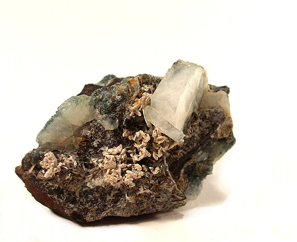 Whitlockite Locality: Rapid Creek, Dawson Mining District, Yukon Territory, Canada (Locality at ) Size: miniature, 4.8 x 3.2 x 1.8 cm Whitlockite (HUGE XL!) This specimen features the largest crystal for the species that I am personally aware of. It was collected in the field by French collector, from whom I obtained it in Munich when he sold a part of his longtime personal collection. Not only is the crystal large (to 1.4 cm), it is remarkably thick (6 mm, translucent) , as well, and stands out beautifully on matrix. Another unidentified white mineral is also present. This is a significant specimen for this rare phosphate species! 4.8 x 3.2 x 1.8 cm